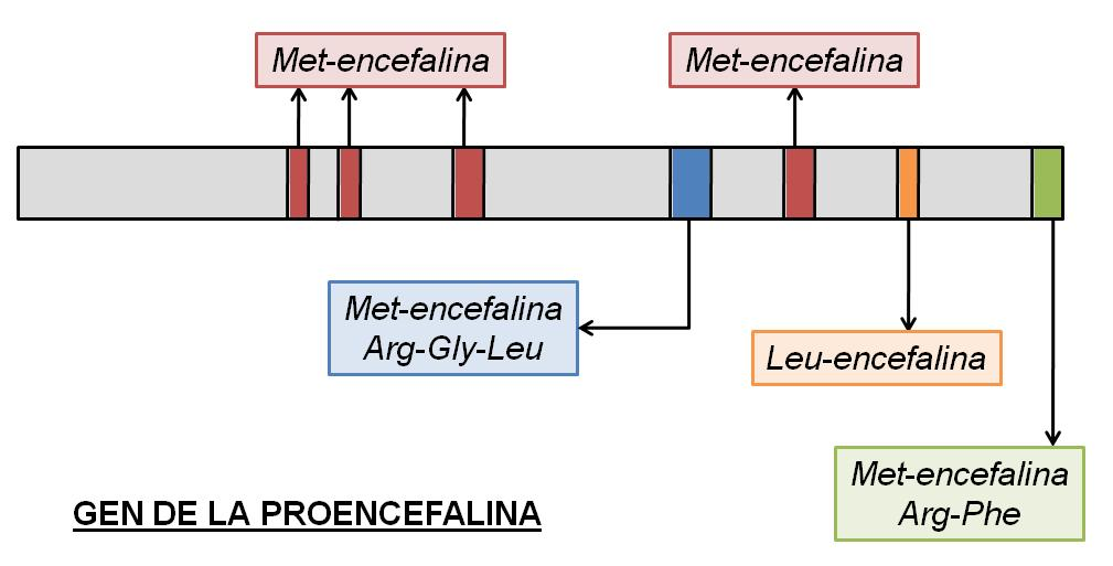 Basic structure of the proenkephalin gene.